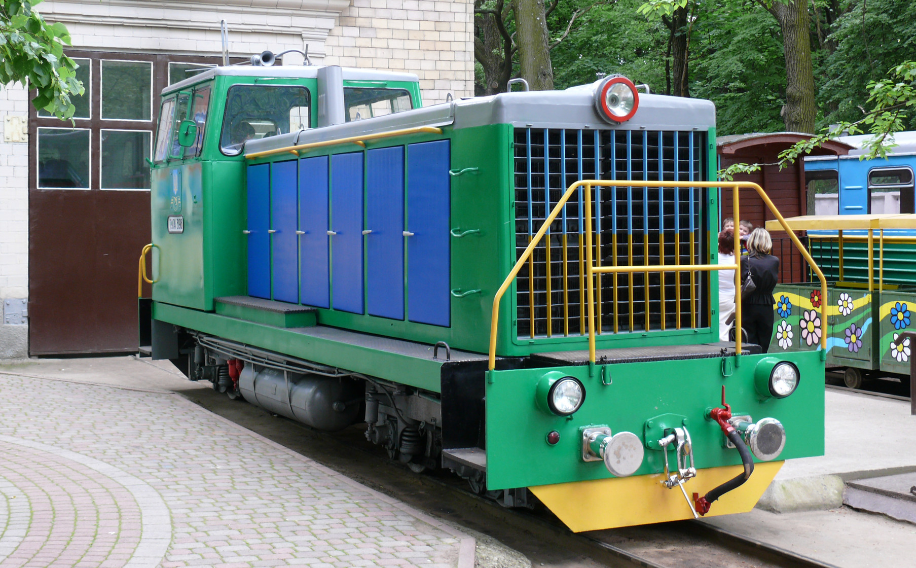 Kharkov children's railway